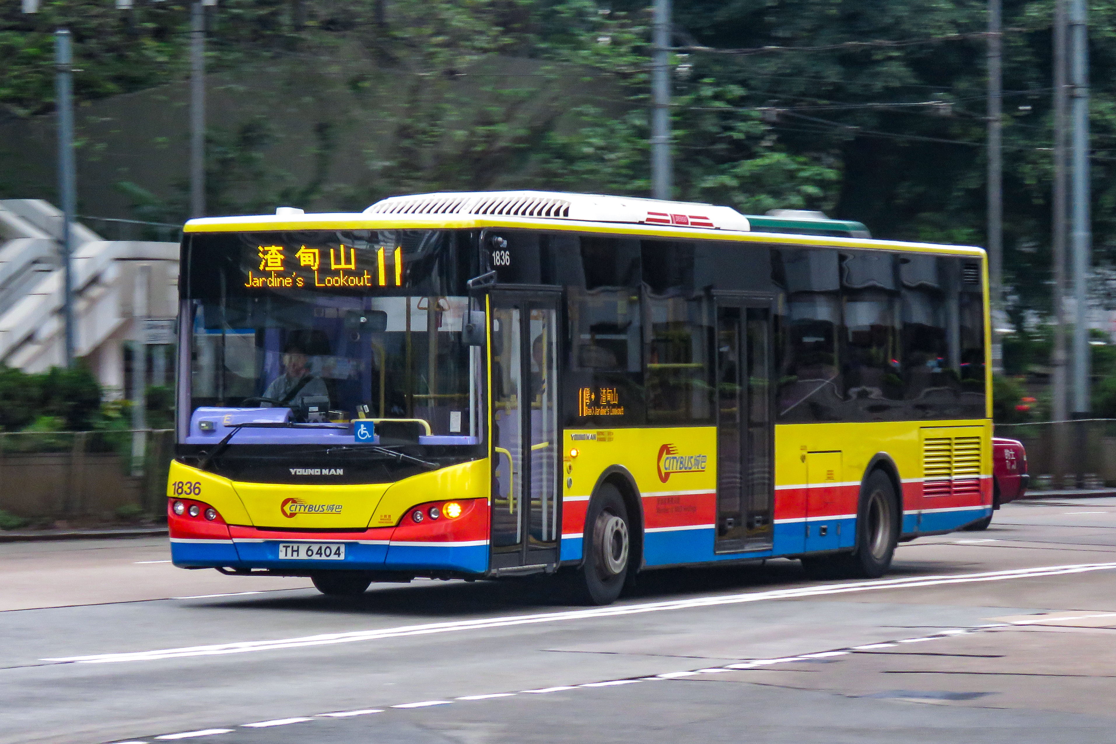 Don't forget this - Happy Youth Day and happy birthday to Shinichi!